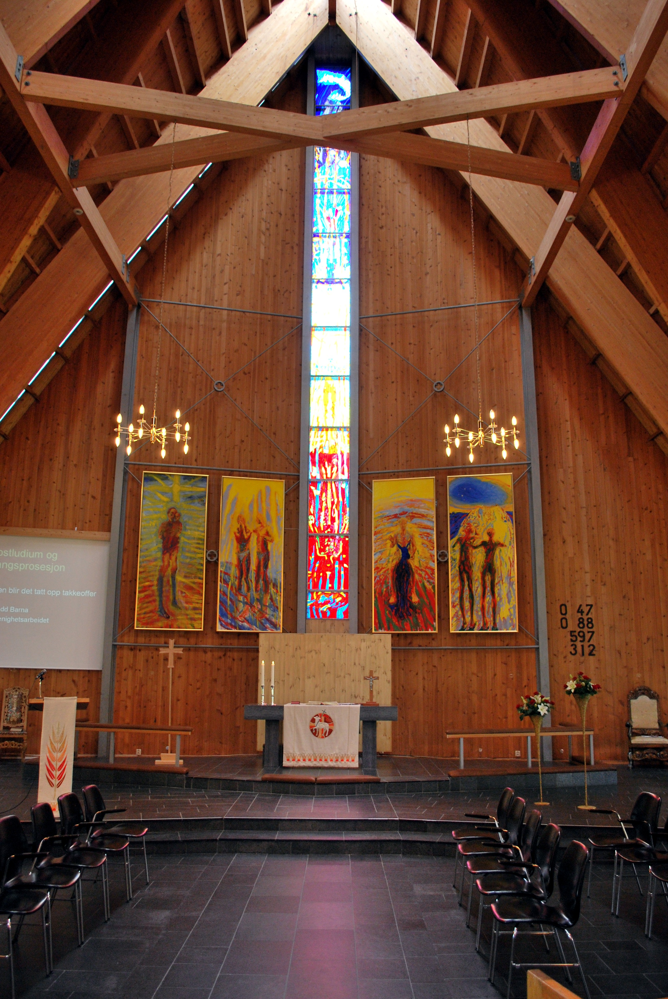 Voldsdalen kirke, interior, Ålesund.